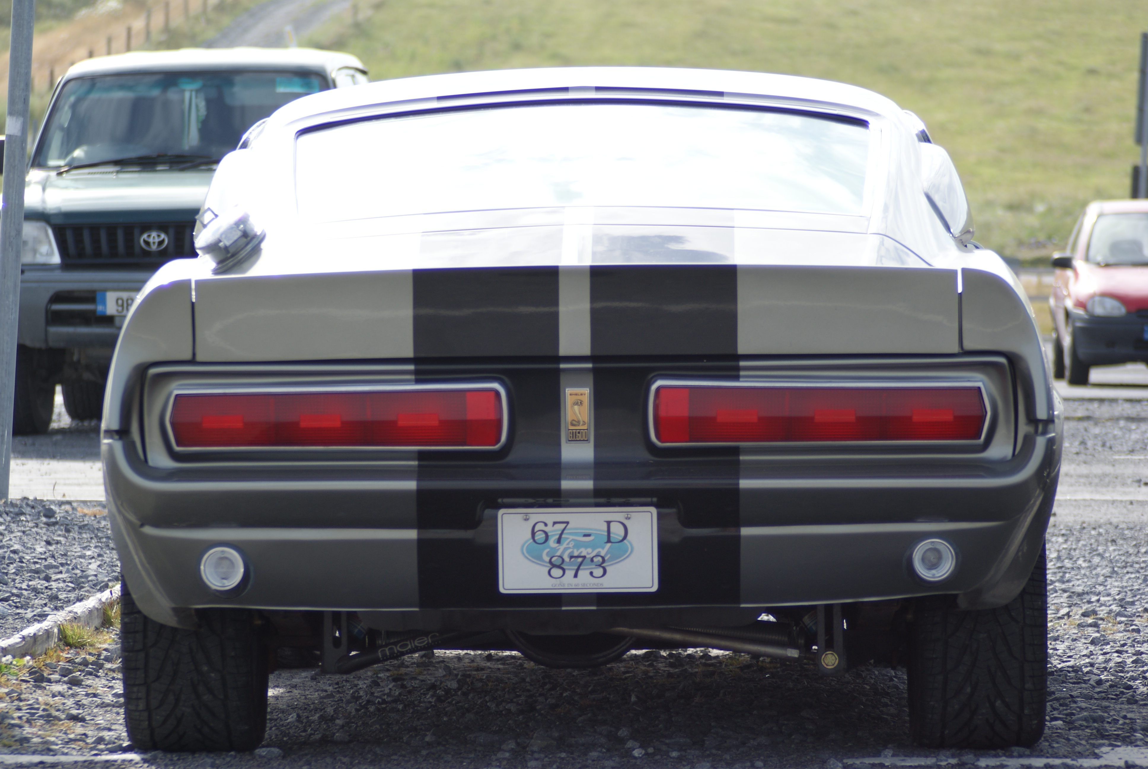 Shelby Mustang GT500 "Eleanor" rear view